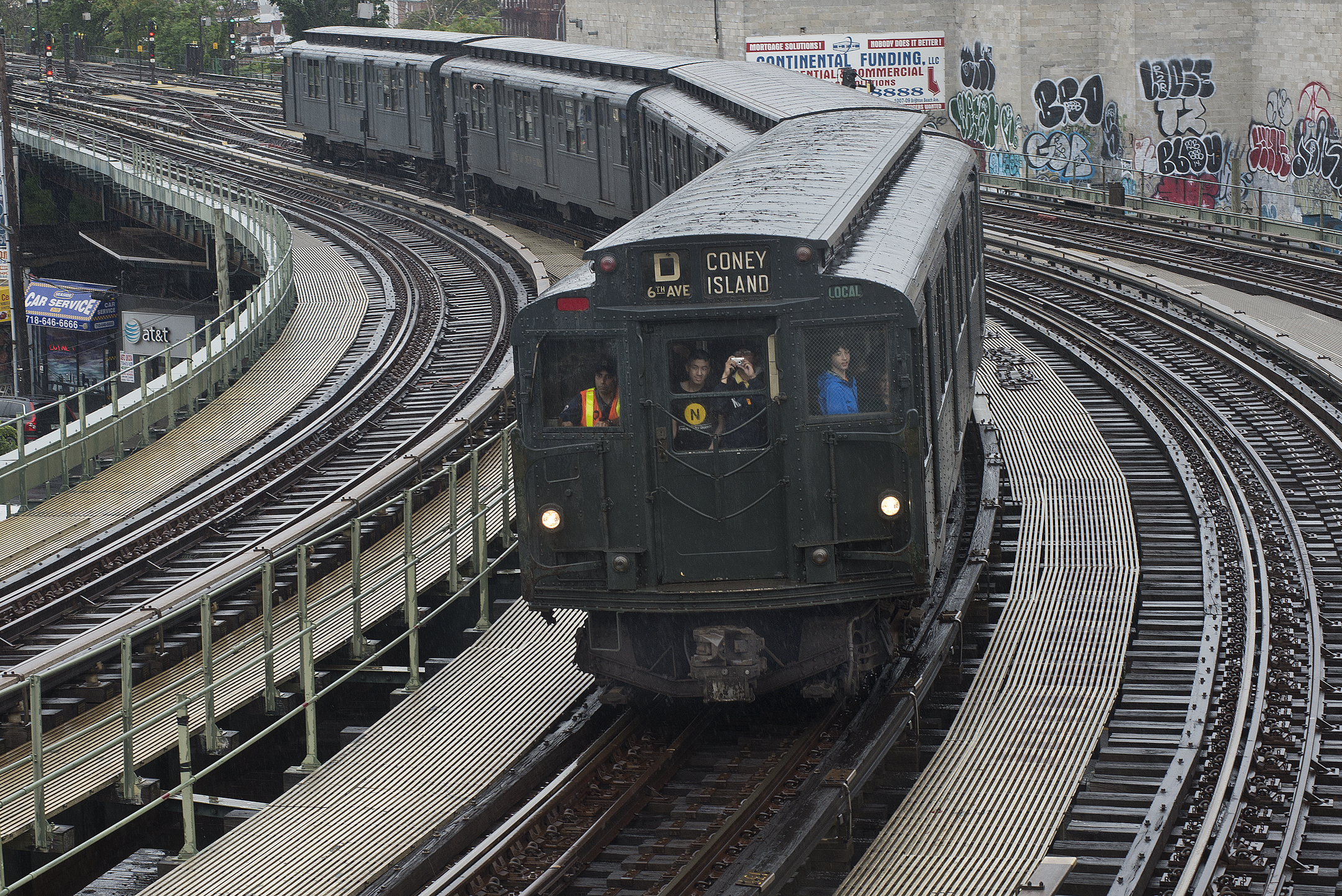 The MTA celebrated the centennial anniversary of the now-defunct Brooklyn-Manhattan Transit Corporation (BMT) with special nostaligia rides on Saturday, June 27 and Sunday, June 28, 2015. Four trains that were in service decades ago carried customers from the Brighton Beach Q station in Brooklyn on non-stop loops. Photo: Metropolitan Transportation Authority / Patrick Cashin